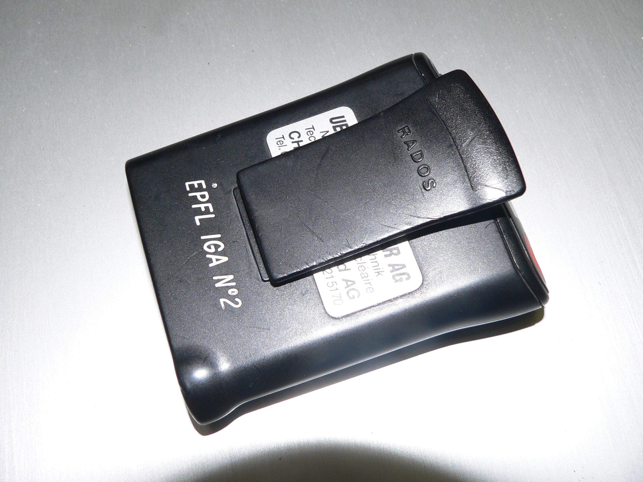 Nuclear installations at the EPFL CROCUS Reactor; CAROUSEL experiments; miscalenous experiments and manipulations; detectors and instruments. Dosimeter (the one I was wearing. It stayed at zero micro-Sivert for the whole hour) Wholehearted thanks to René Frueh, chief of operations of CROCUS, for devoting a whole hours to open doors of this universe and explain technical details.